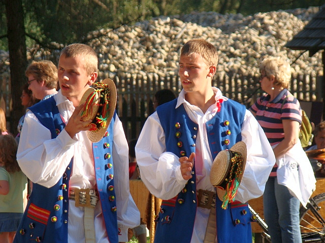 Niebieszczany